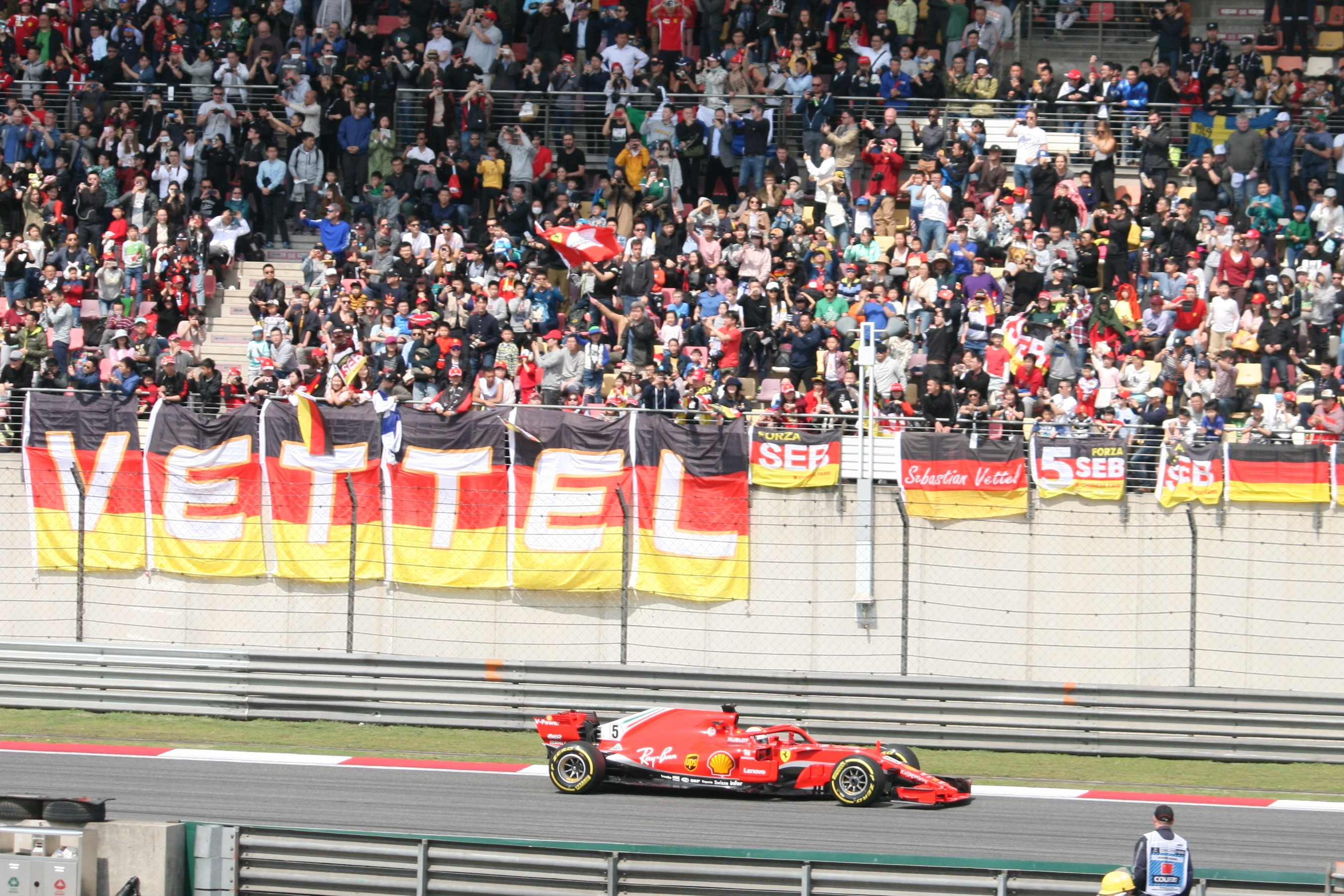 Sebastian Vettel, Chinese GP 2018